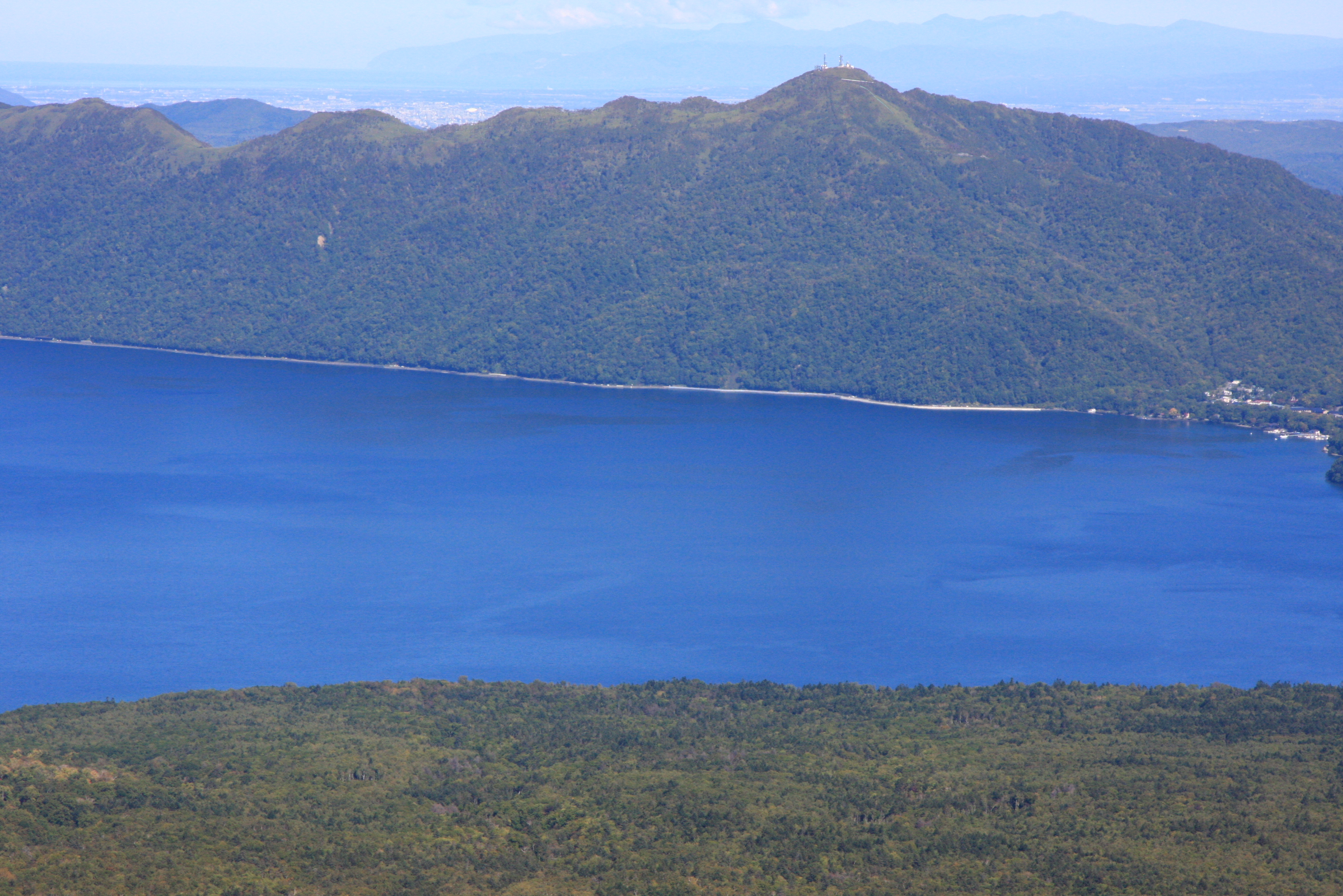 Looking north from Mount Tarumae. Lake Shikotsu and Mount Monbetsu.